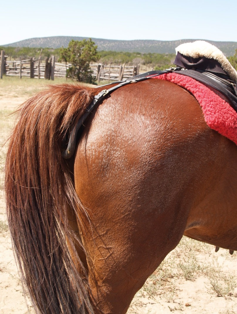 Crupper on the saddle of an endurance race horse.